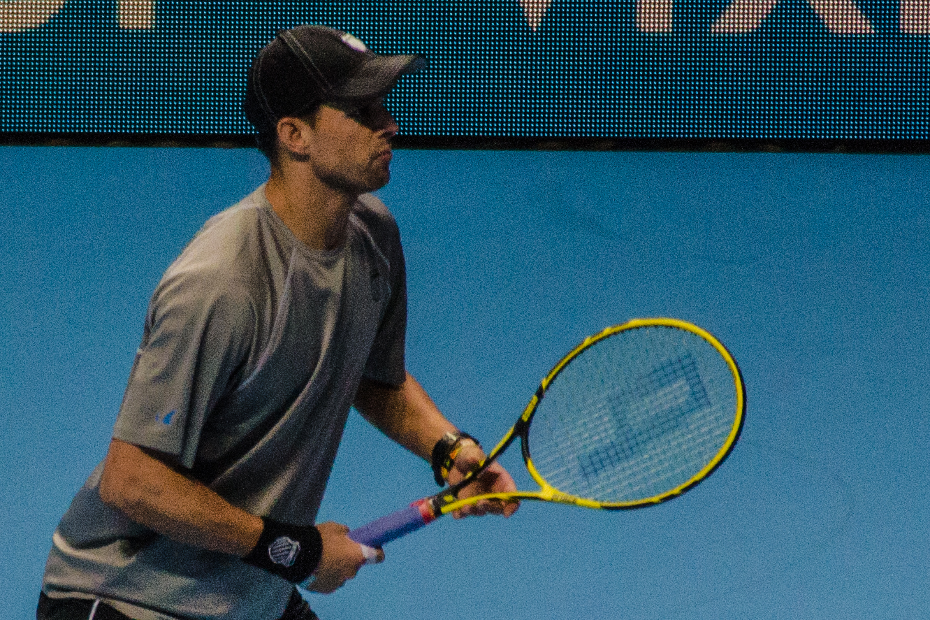 This is a photo of a tennis game at the ATP World Tour Finals.